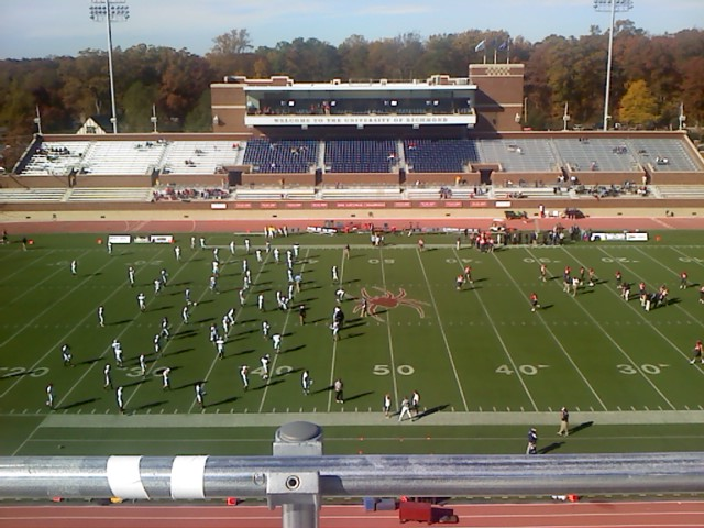 A view of the West grandstand of the University of Richmond's E. Claiborne Robins Stadium, taken from the roof of the East grandstand on November 13, 2010.